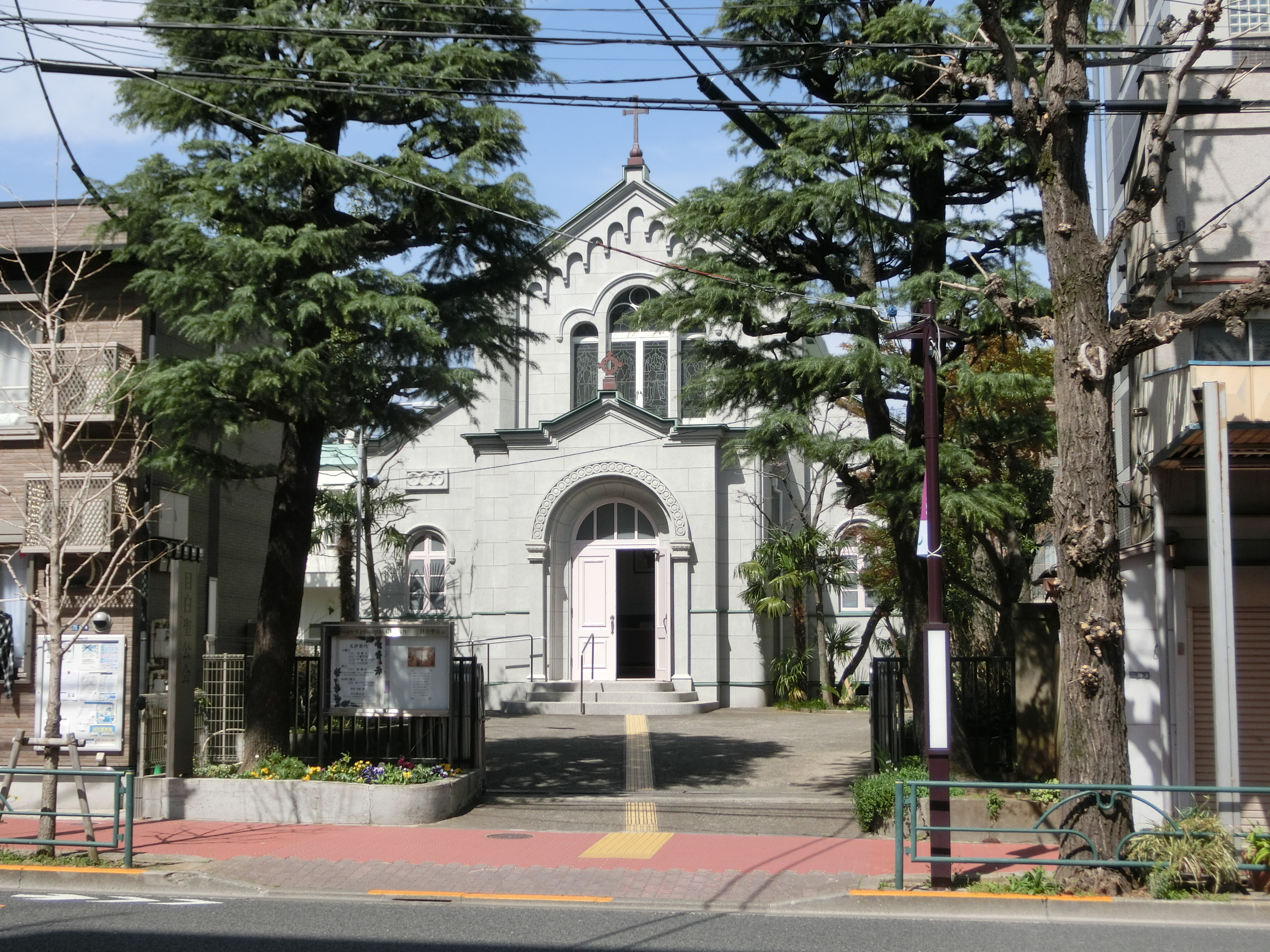 Mejiro Seikokai